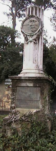 Louis Paulhan, early French aviator: monument in Pézenas